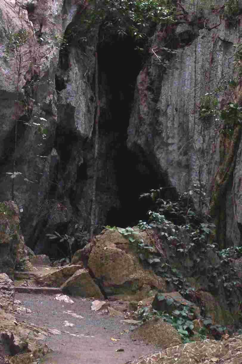 Capricornia Caves entrance, Central Queensland, Australia